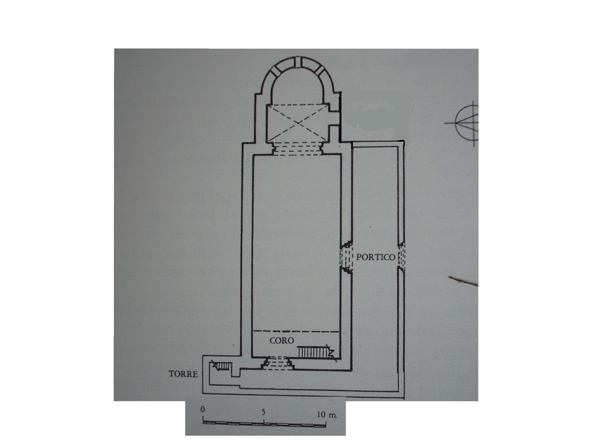 measurement church Duratón